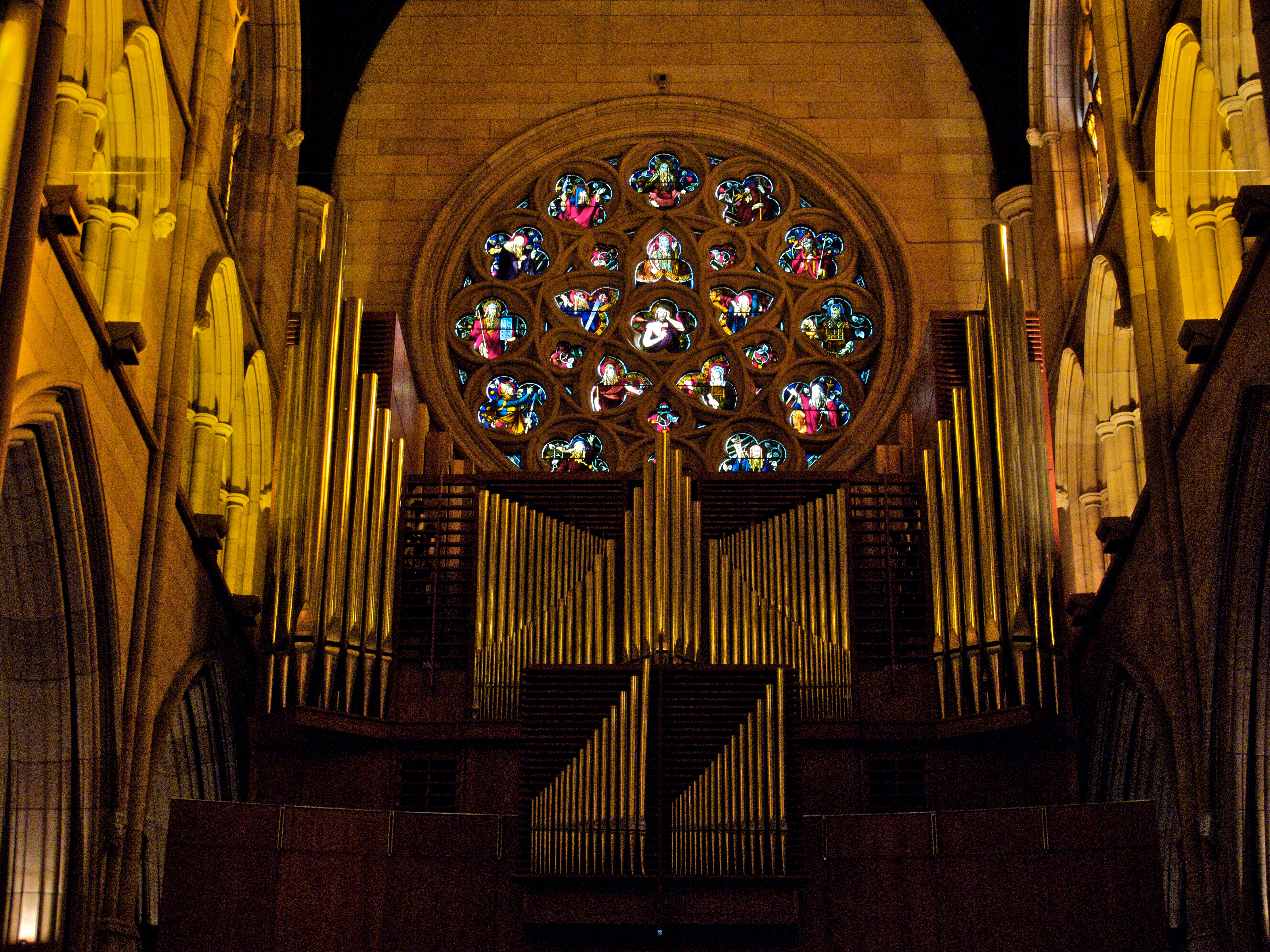 The Grand Organ at St Mary's Cathedral, Sydney.